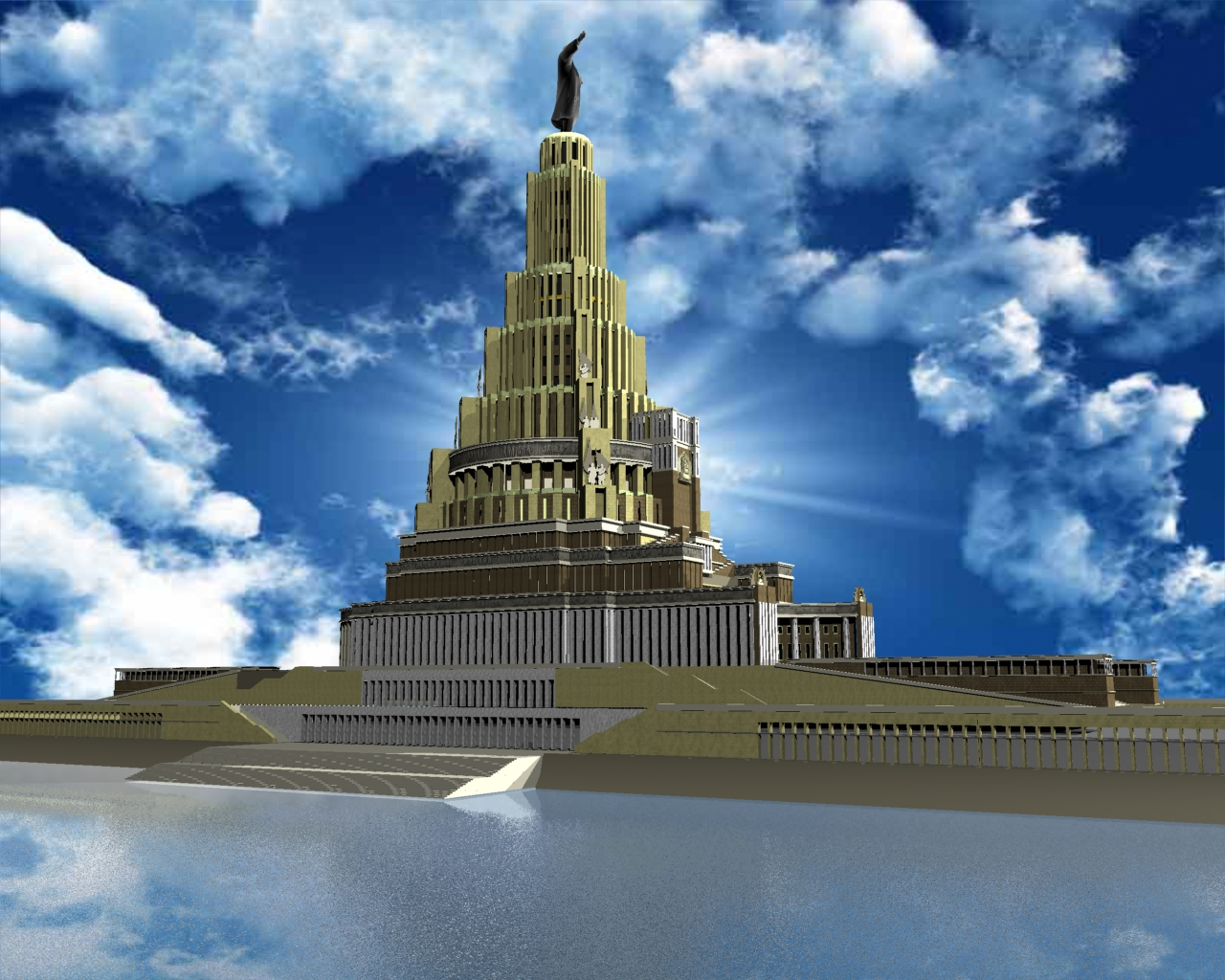 Palace of the Soviets, (done in 3D Max)